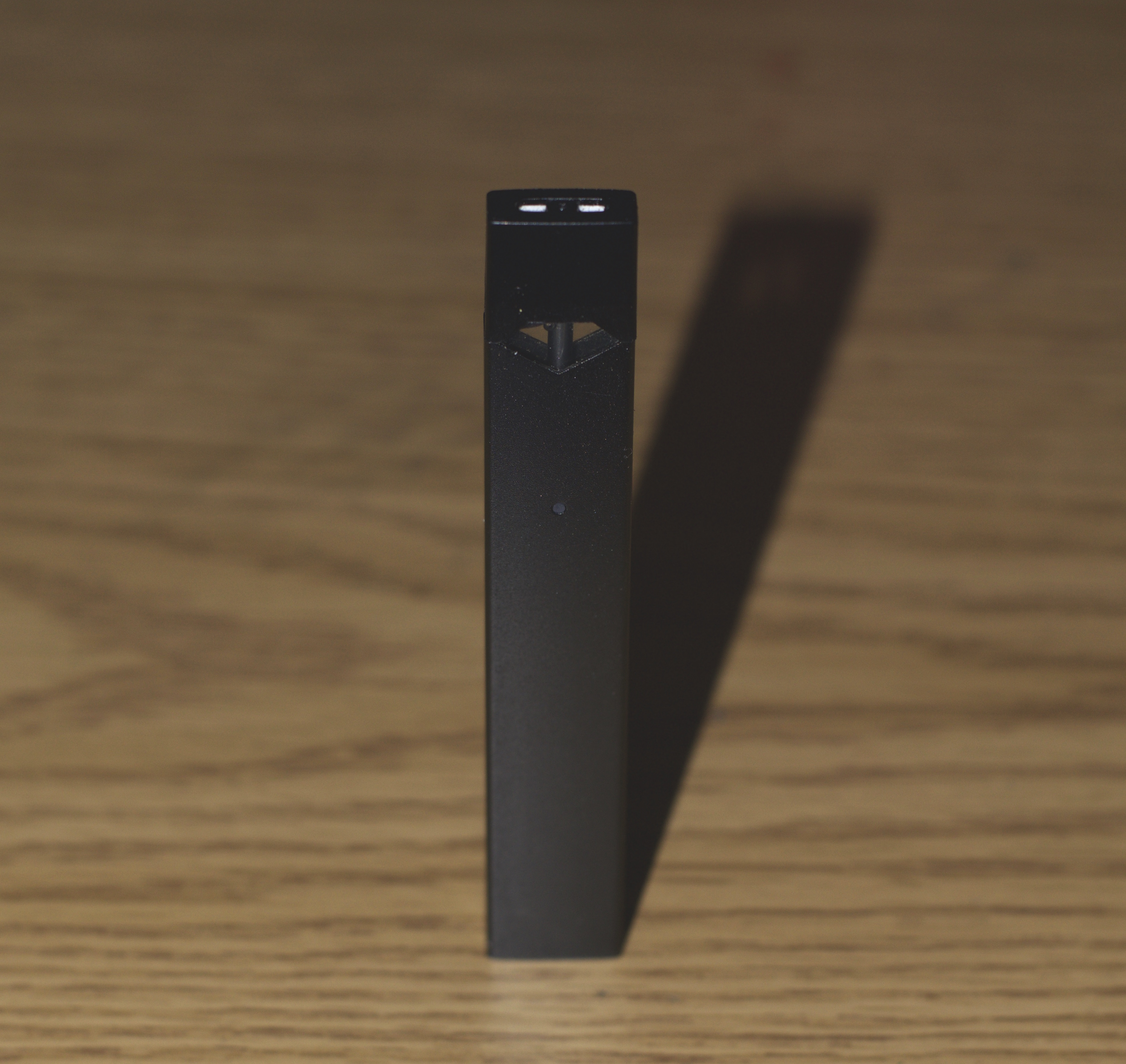 A Juul electronic recent ban on Juul Pods is still taking the entire population by surprise because juul pods near me and other vape stores near me who normally supply juul pods such as the mint juul pods, mango juul pods are now scared to market this perfectly safe products-Juul pods